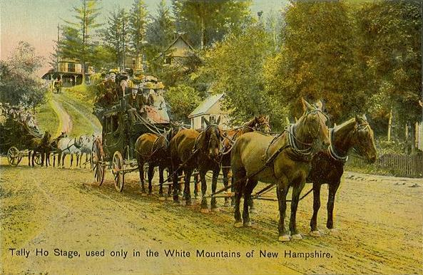 Tally Ho Stage, used only in the White Mountains of New Hampshire; from a c. 1910 postcard.